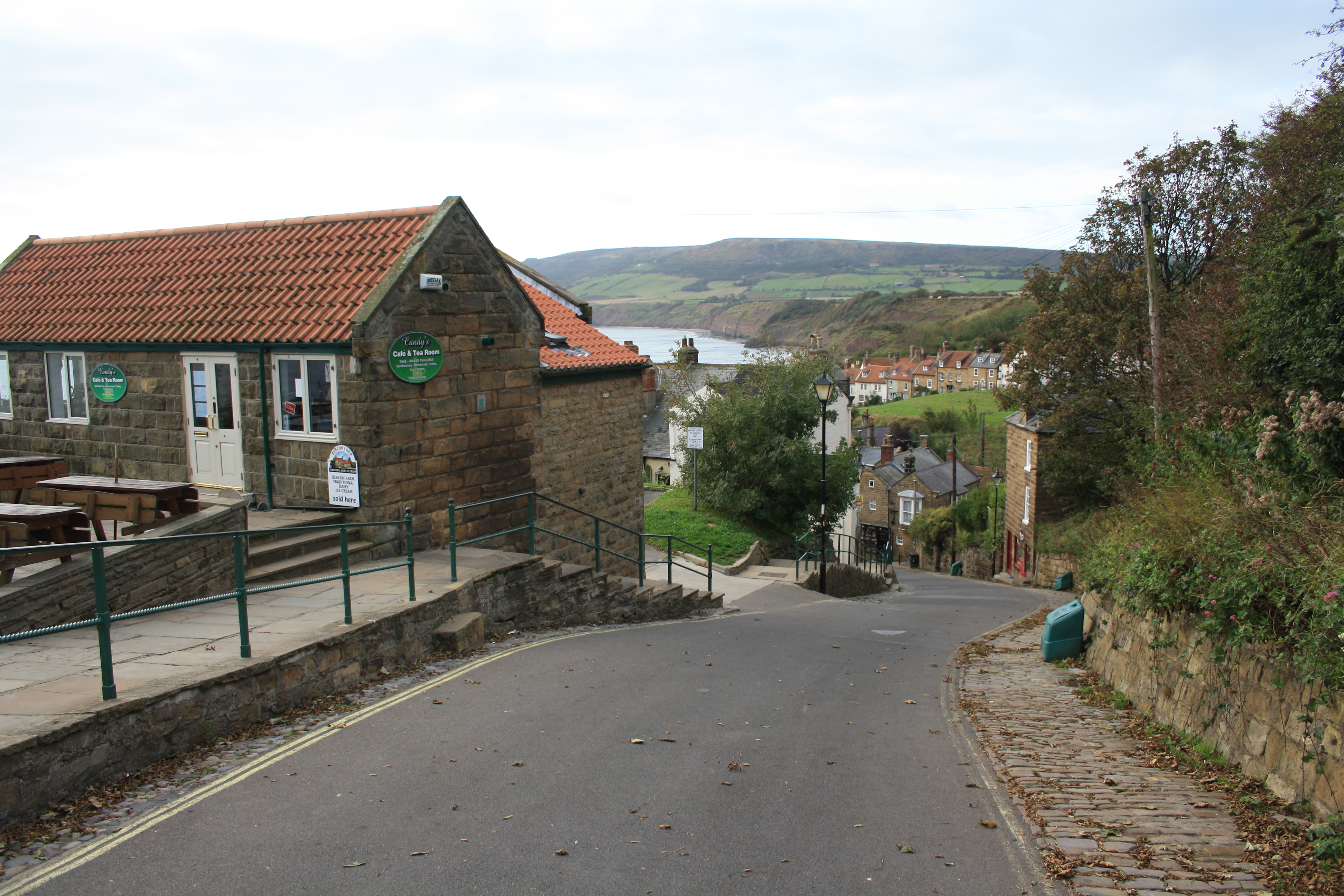 Robin Hoods Bay